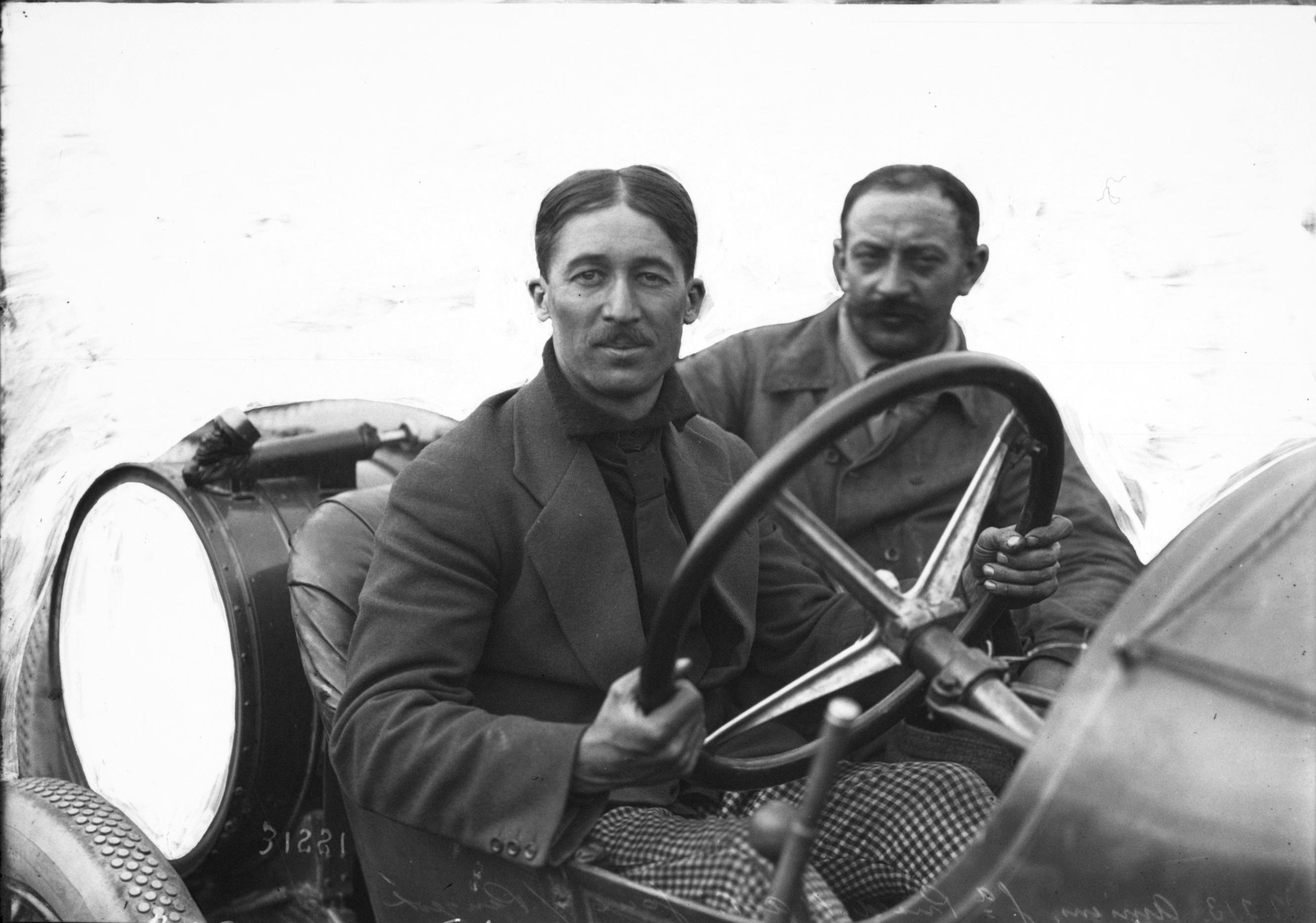 Jules Goux at the 1913 French Grand Prix